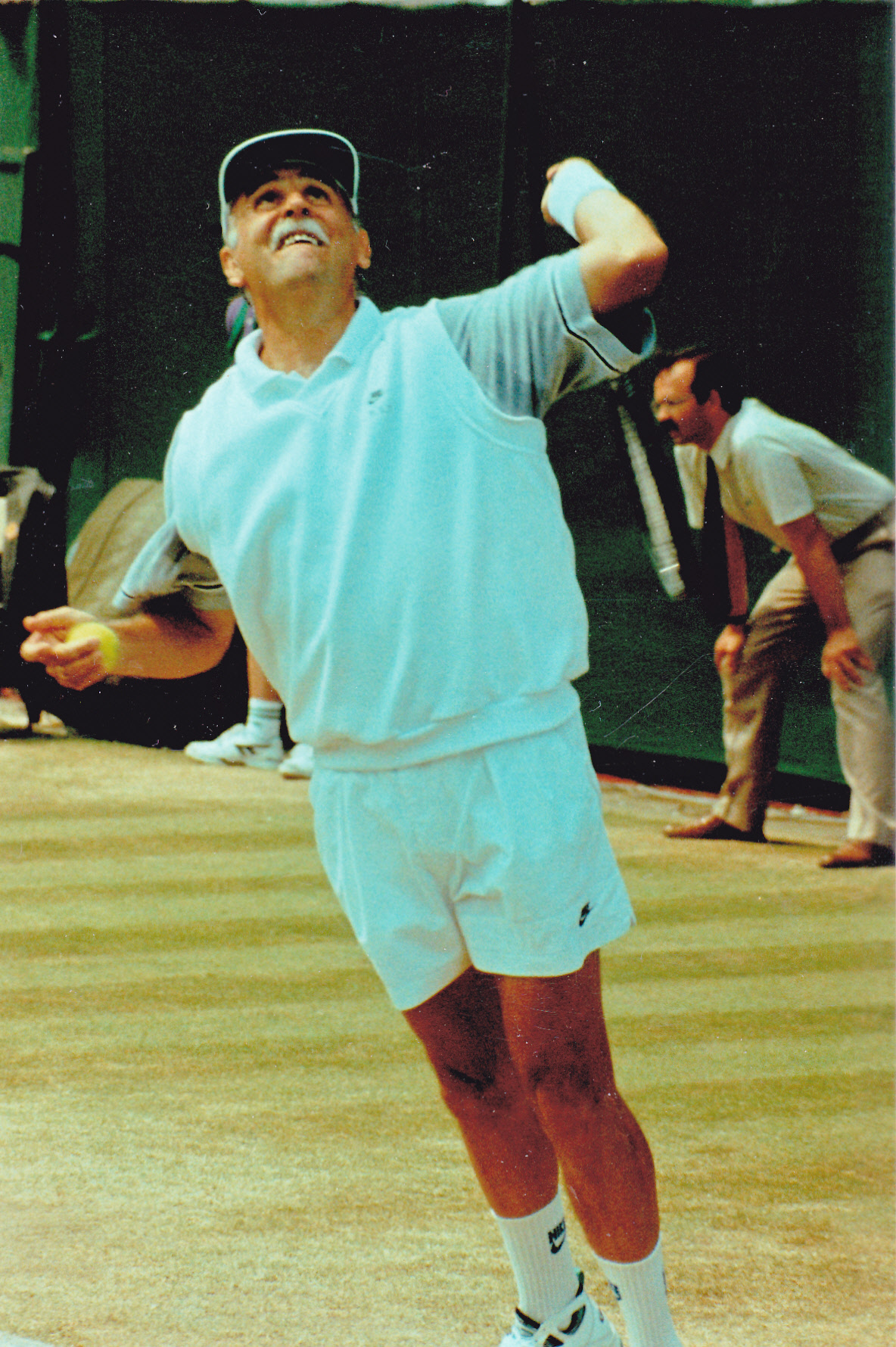 Owen Davidson Wimbledon circa 1988